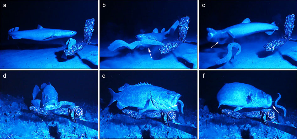 The seal shark Dalatias licha (a–c) and the wreckfish Polyprion americanus (d–f) attempt to prey on the hagfishes. First, the predators approach their potential prey. Predators bite or try to swallow the hagfishes, but hagfishes have already projected jets of slime (arrows) into the predators’ mouth. Choking, the predators release the hagfishes and gag in an attempt to remove slime from their mouth and gill chamber.